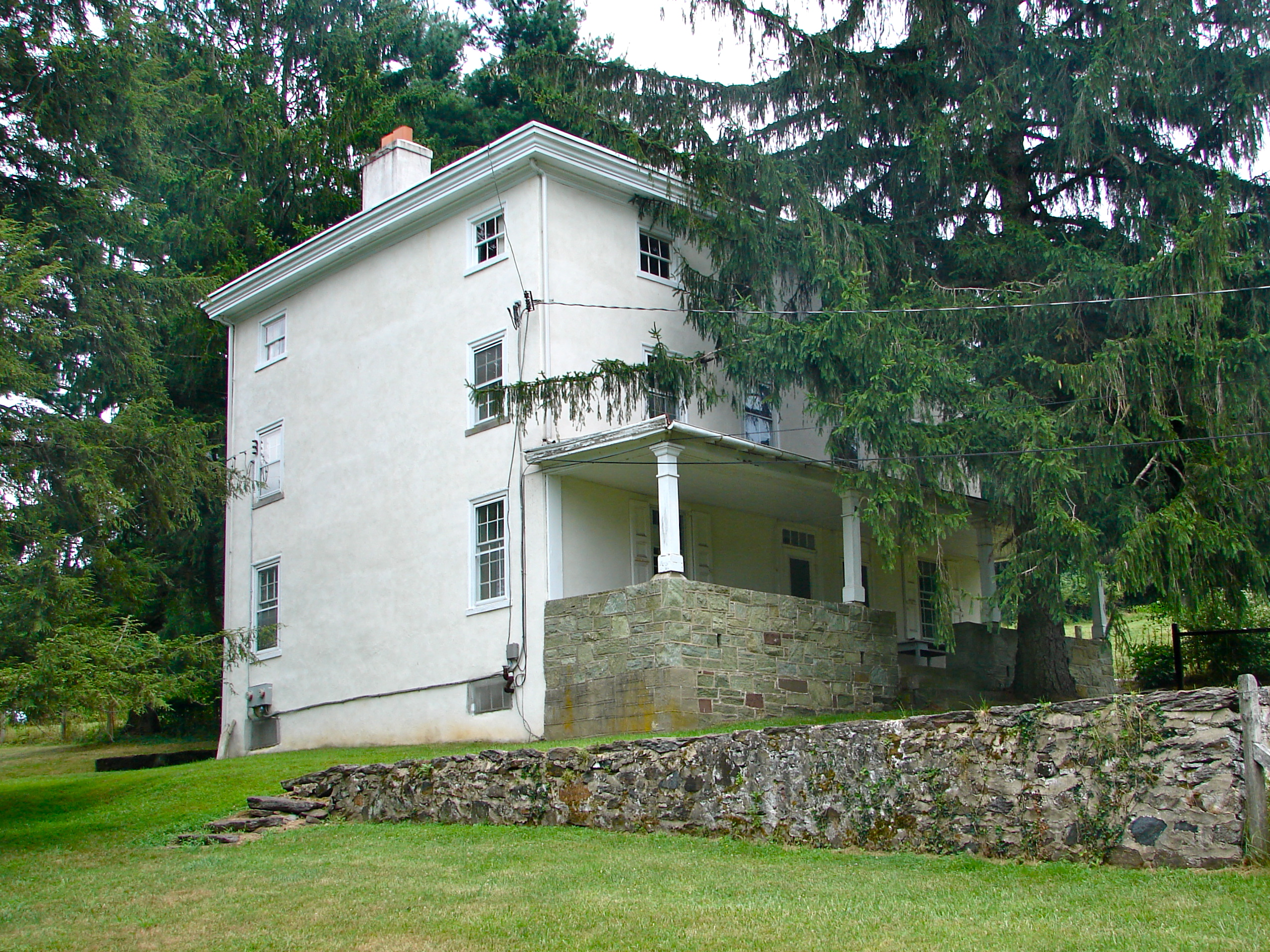 House at Kuerner Farm, named a National Historic Landmark in July 2011. At 14 Ring Road, in Chadds Ford Township, Delaware County, Pennsylvania.